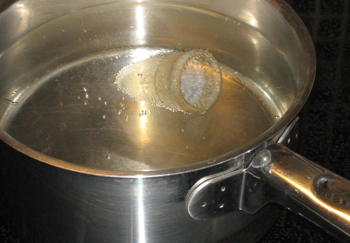 Silicone menstrual cups can be boiled. This picture shows a menstrual cup being cleaned by boiling it.